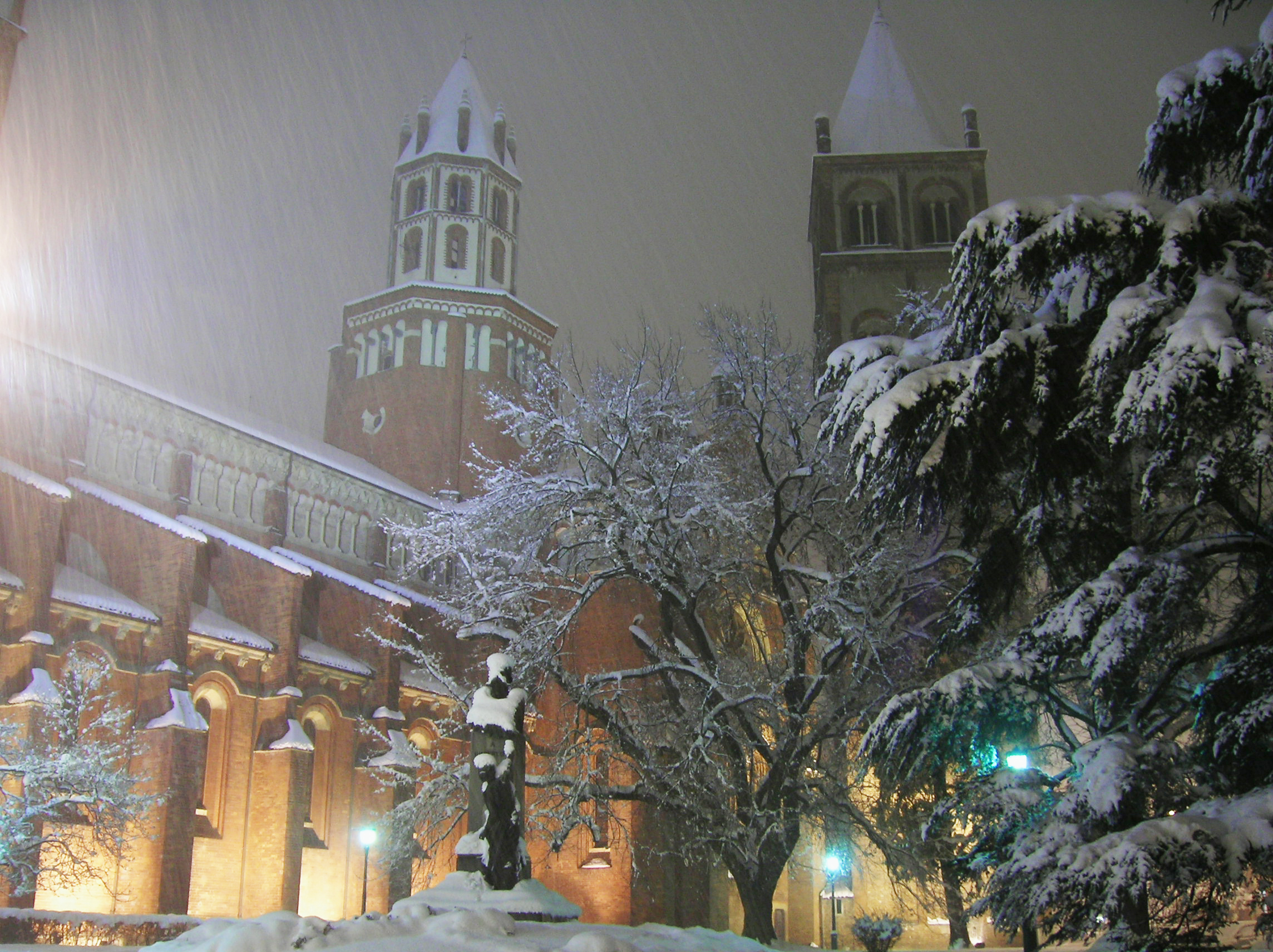 Basilica di S. Andrea sotto la neve